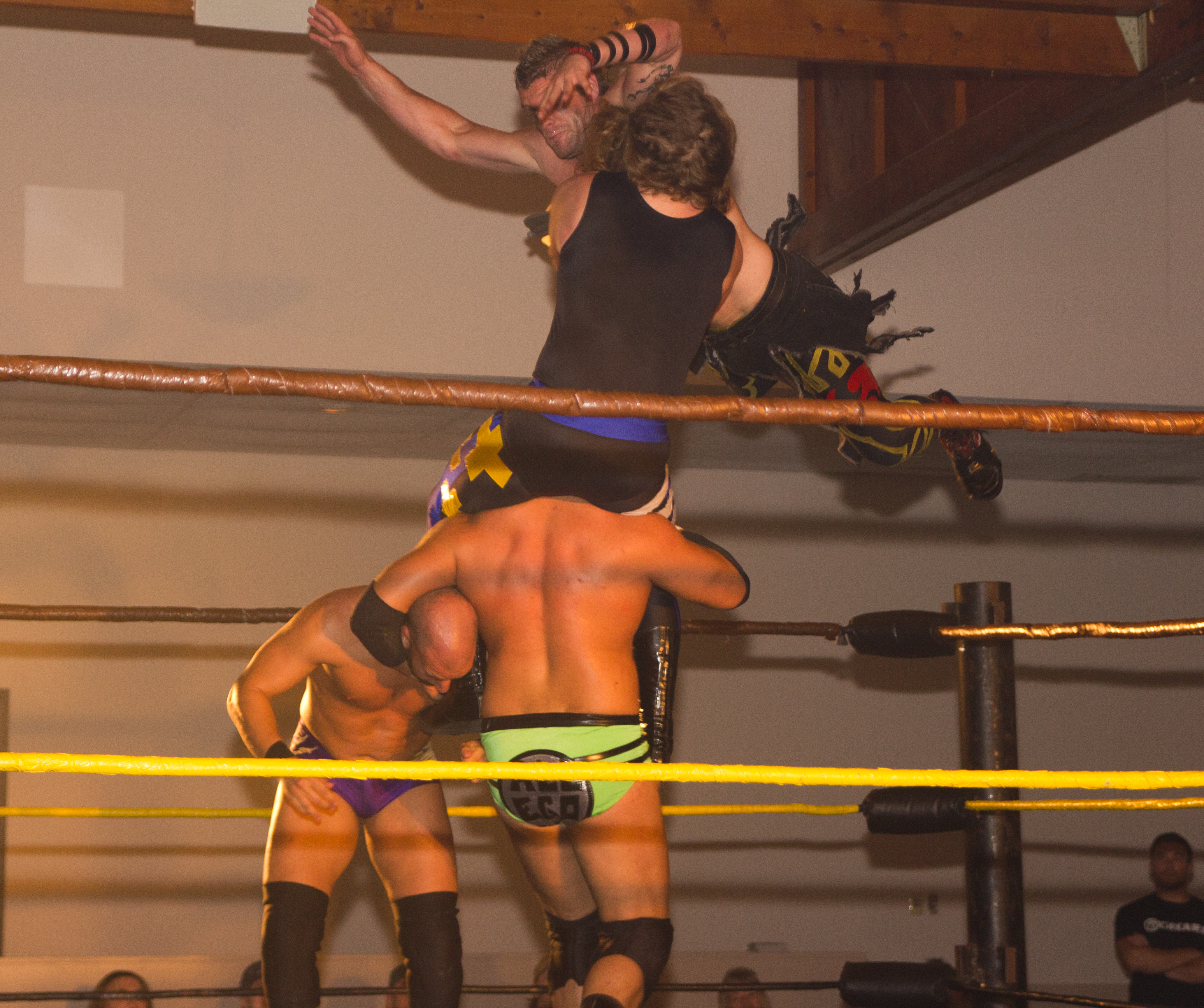 The four participants from the first qualifying match of Chikara's 2012 Young Lions cup tournament. From top: Bucks Bellmar executing a splash onto Jakob Hammermeier, who on Ethan Page's shoulders while Sebastian Suave is in a headlock.